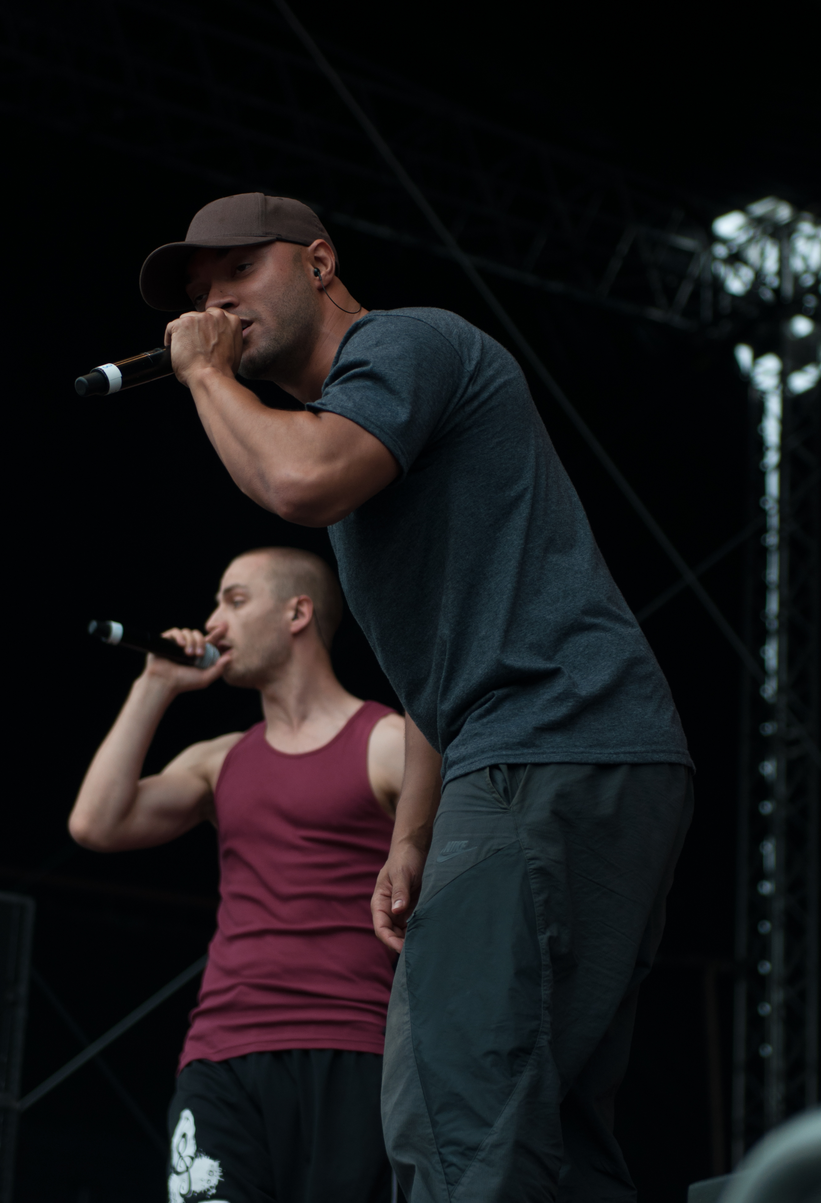 K.I.Z. at Vainstream Rockfest 2014